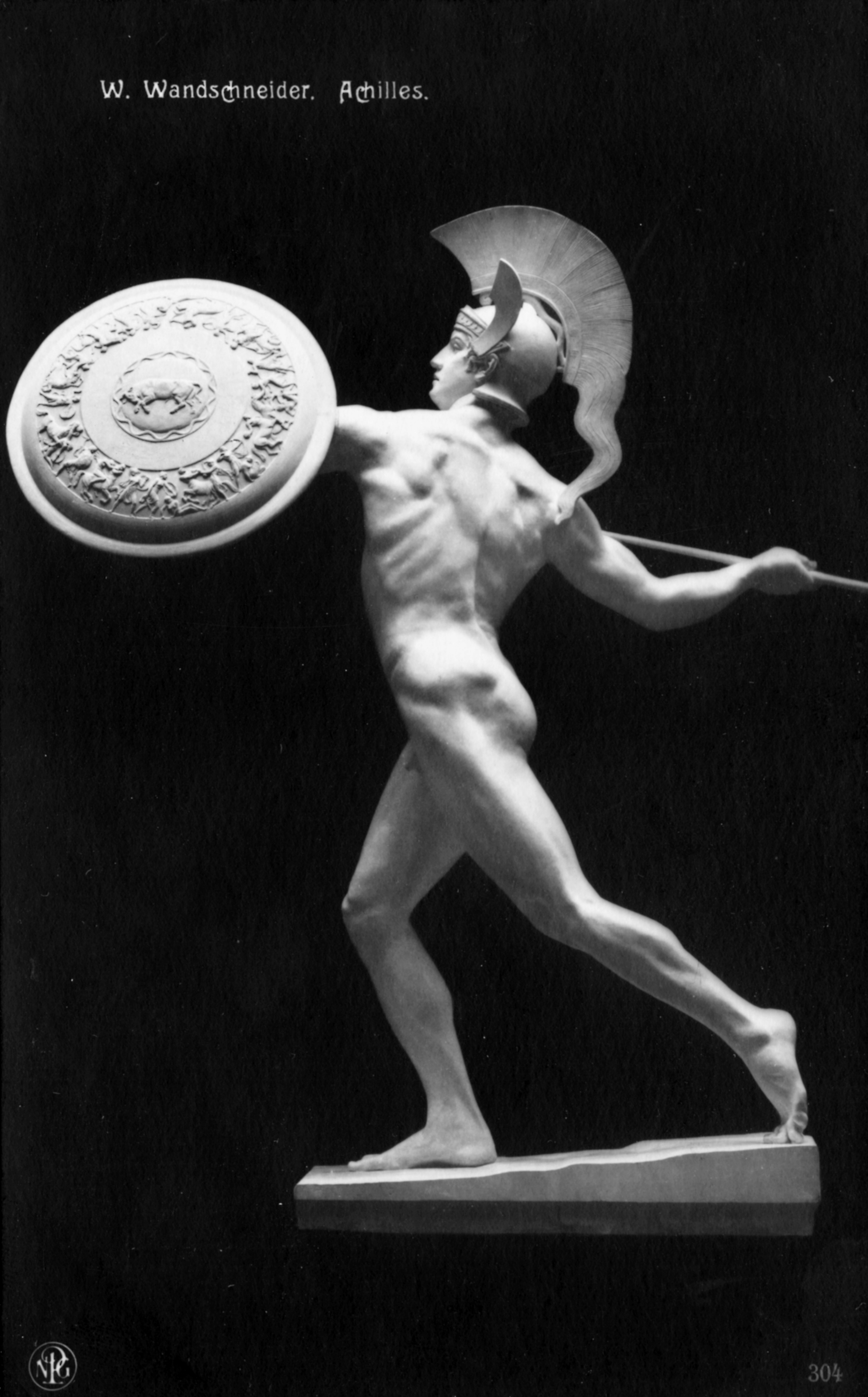 sculpture of "Achill" by Wilhelm Wandschneider